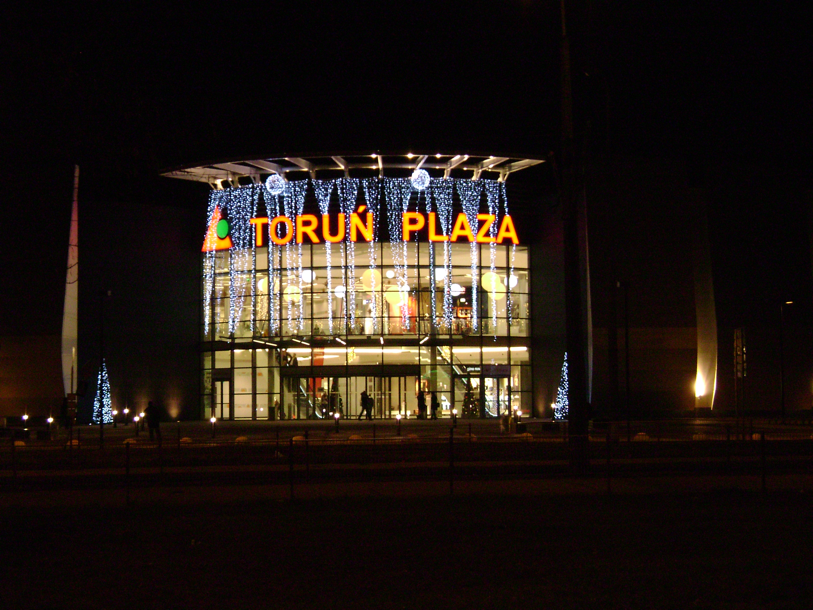 Shopping Centre Toruń Plaza, Toruń, Poland